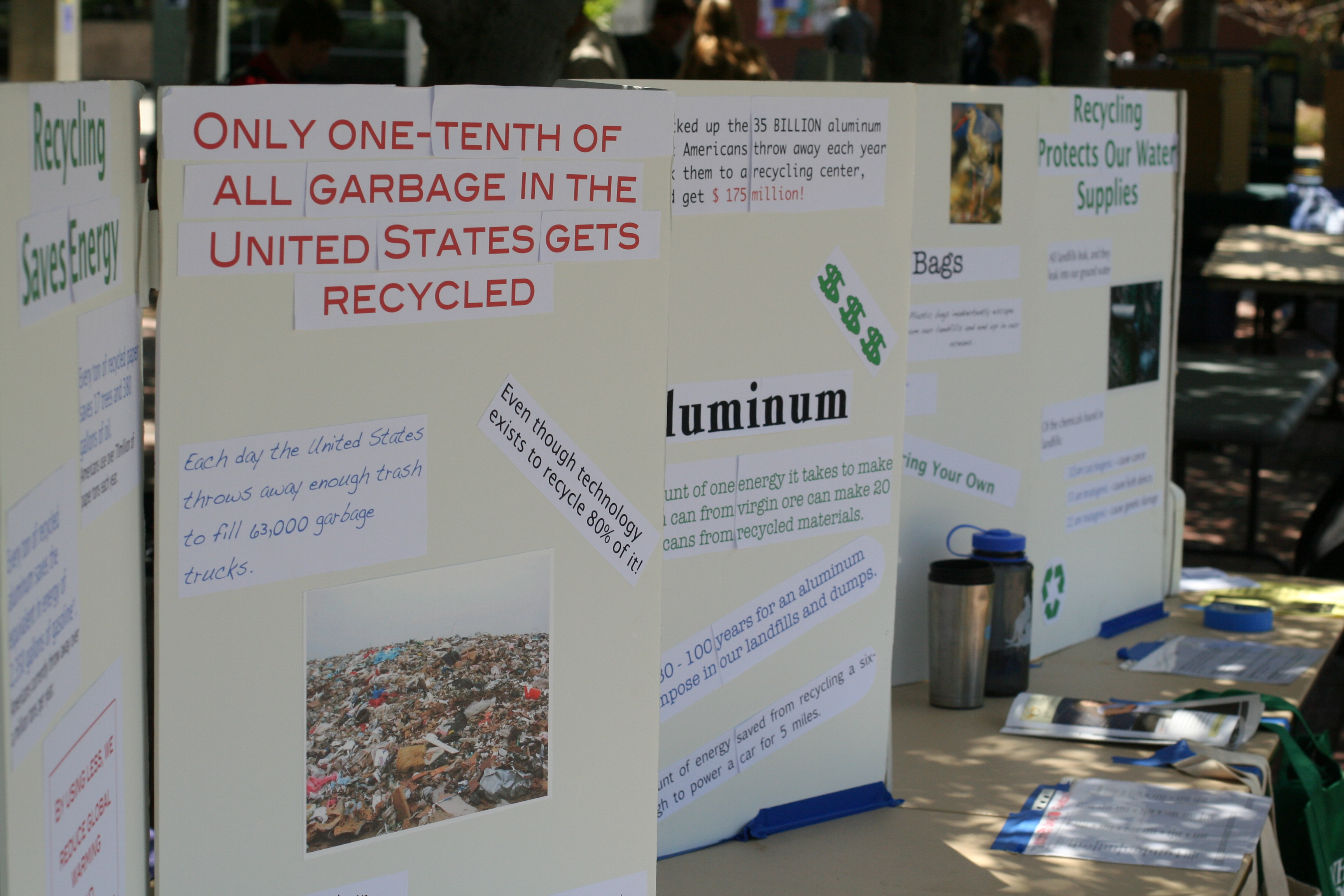 Earth Day 2007 at City College San Diego